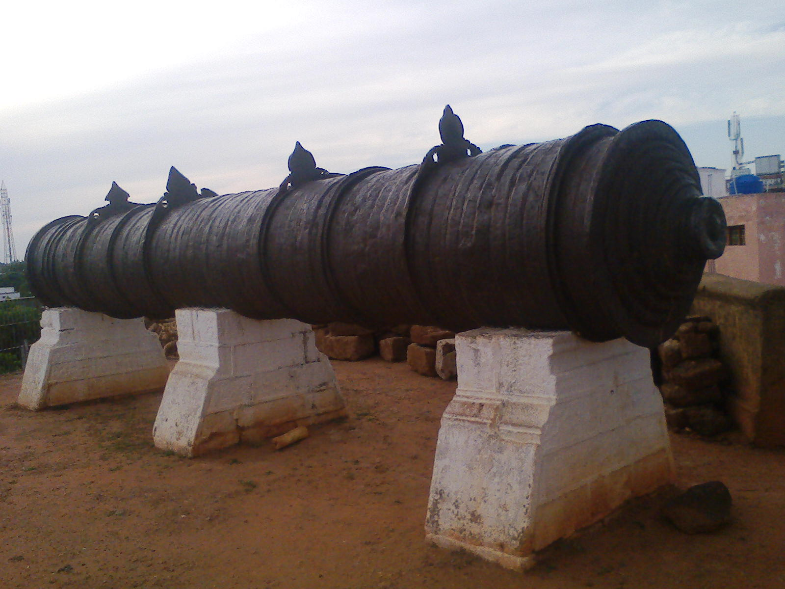 Cannon in Thanjavur, Tamil Nadu, India தஞ்சாவூரில் உள்ள பீரங்கி